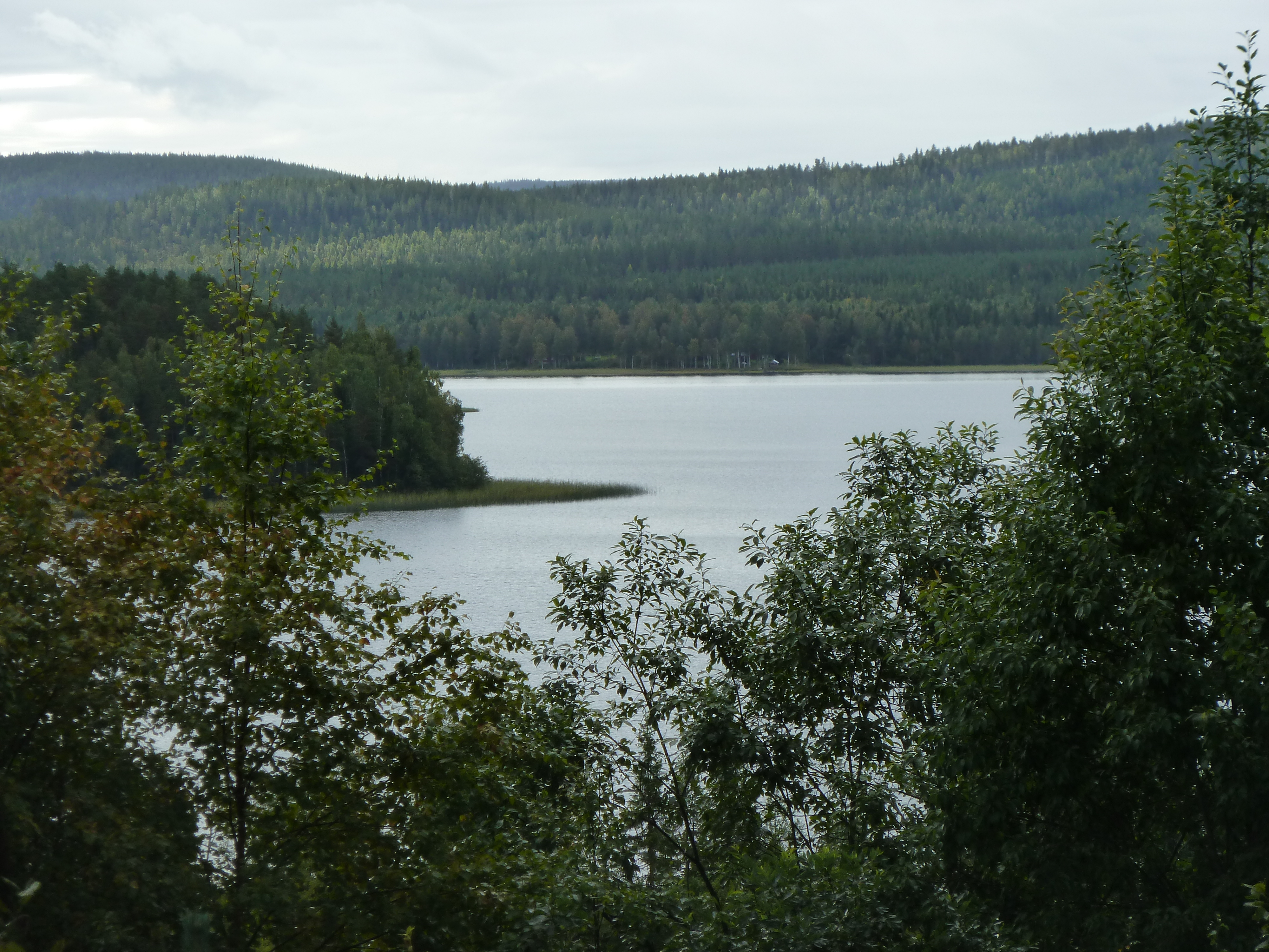 Myckelgensjösjön, Ångermanland, Sweden